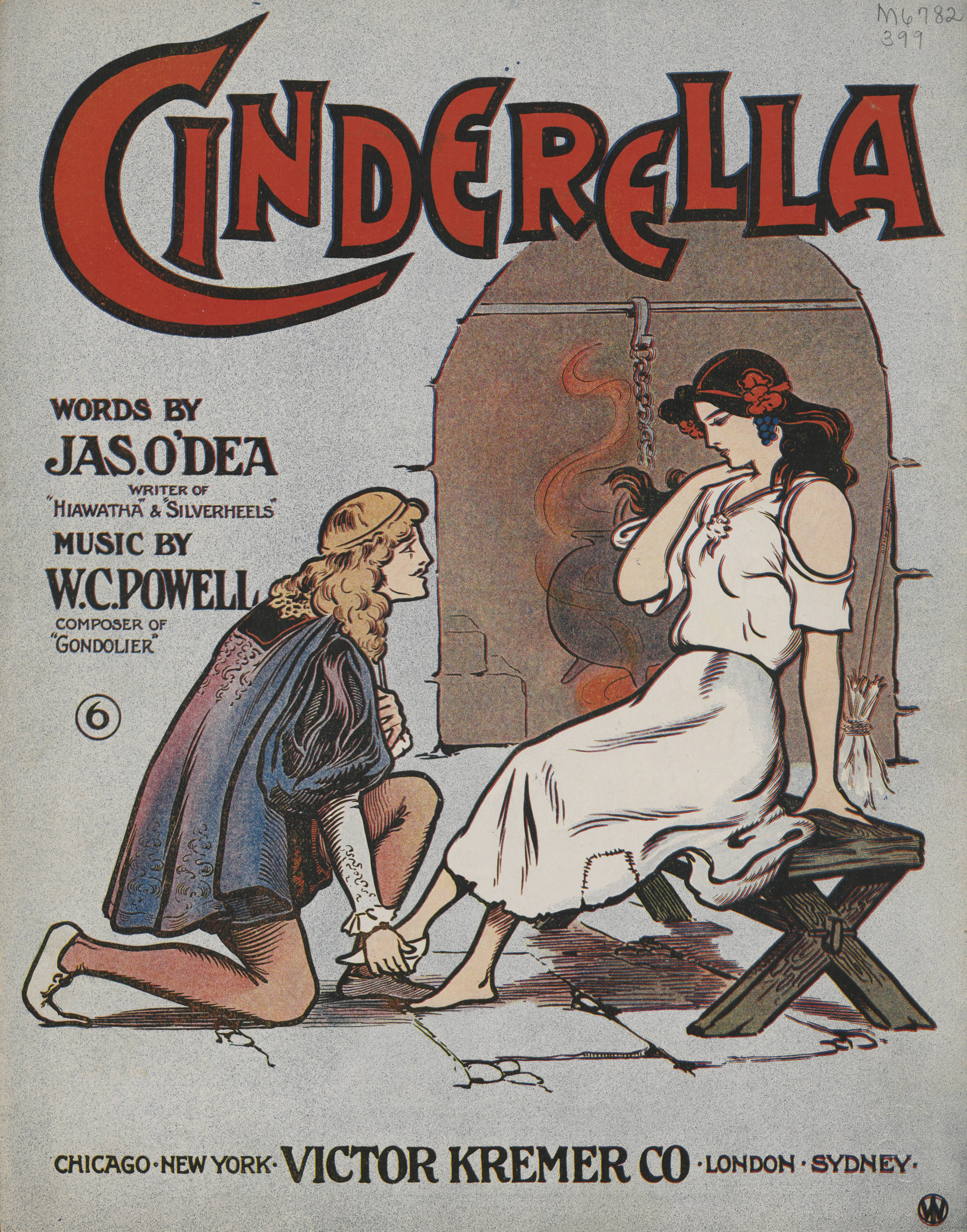 Prince Charming puts the glass slipper on Cinderella's foot (cover art for sheet music to a song by James O'Dea, lyricist, and W.C. Powell, composer).